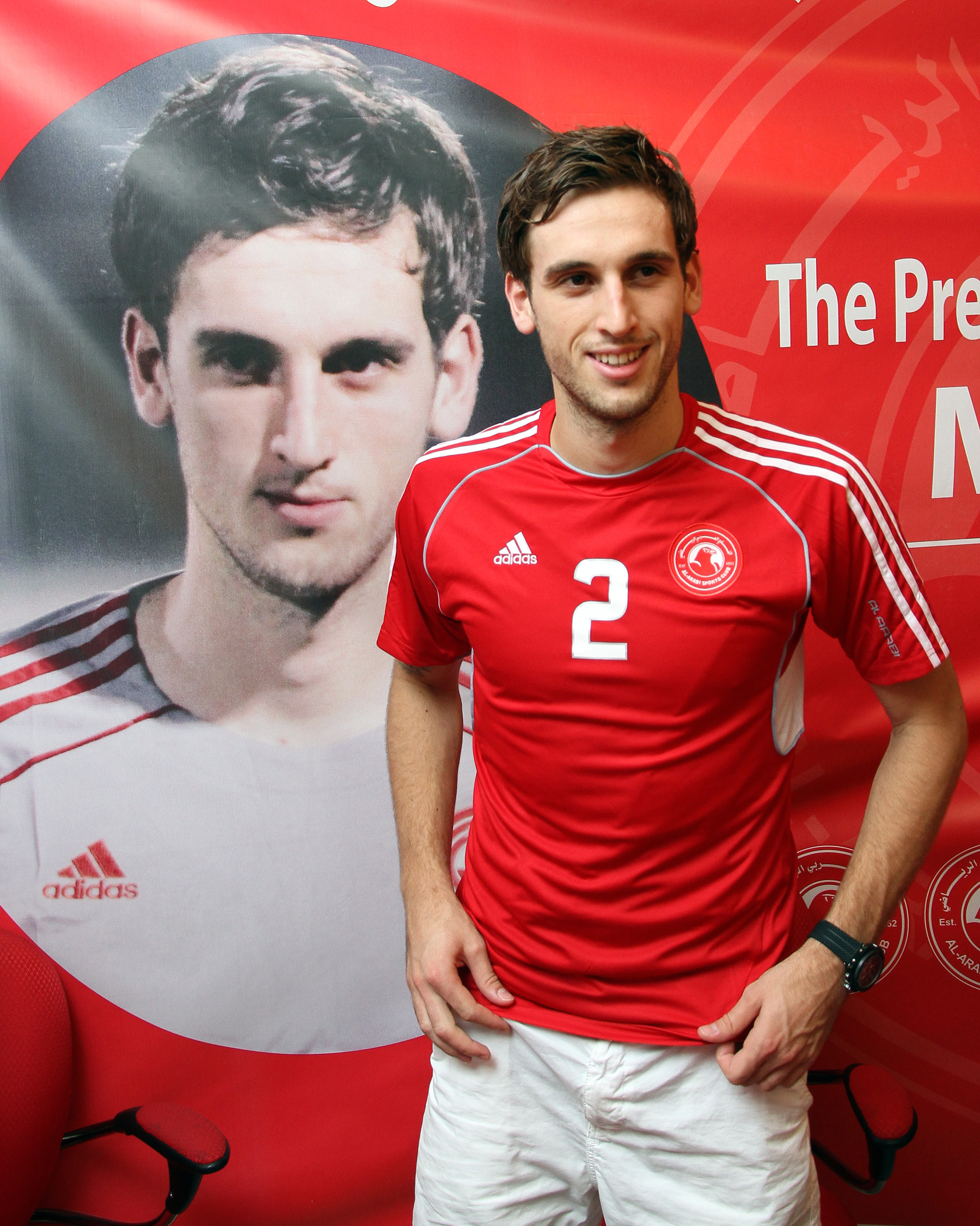 Australian defender Matthew Spiranovic during his signing ceremony with Qatar's Al Arabi Sports Club.